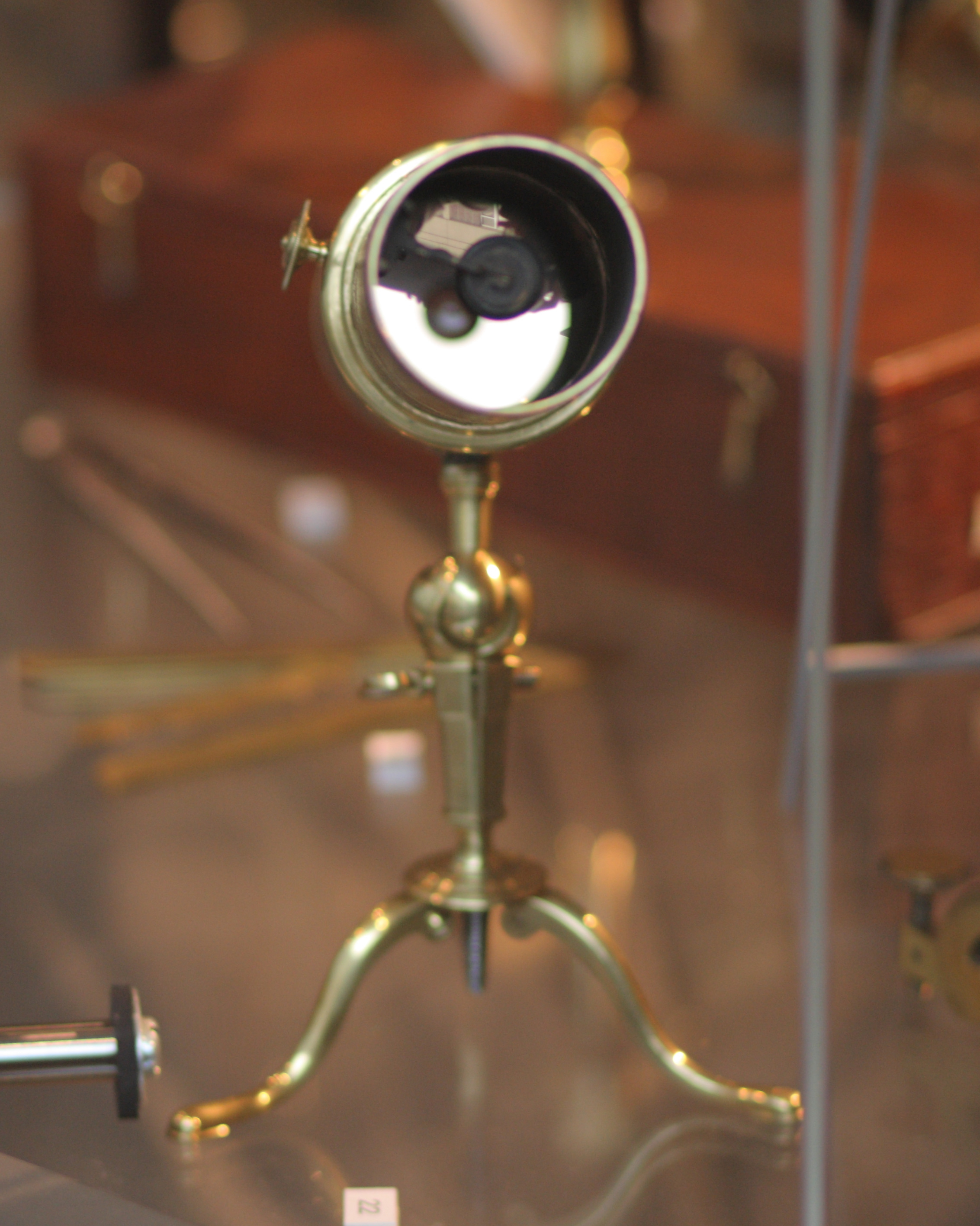 OpenStreetMap(Info) A Gregorian telescope of English manufacture circa 1735, owned by John Winthrop, on display at the Putnam Gallery in the Harvard Science Center